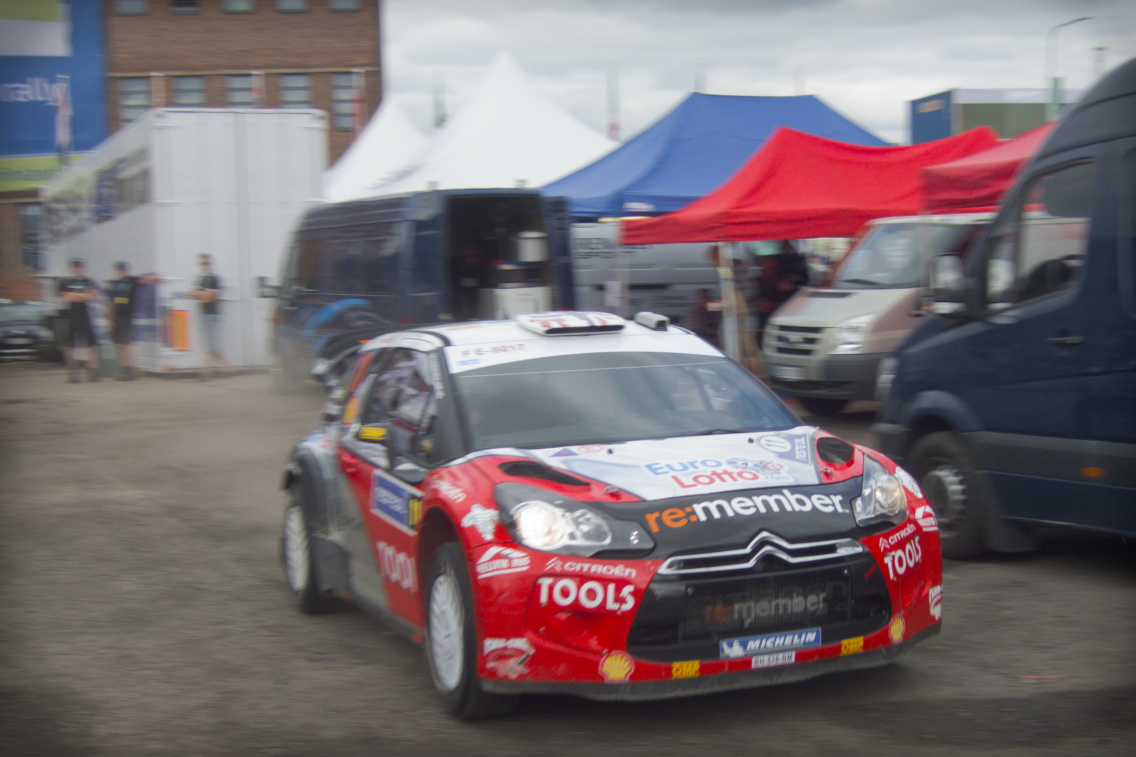 Petter Solberg leaves service F during Rally Finland 2011.